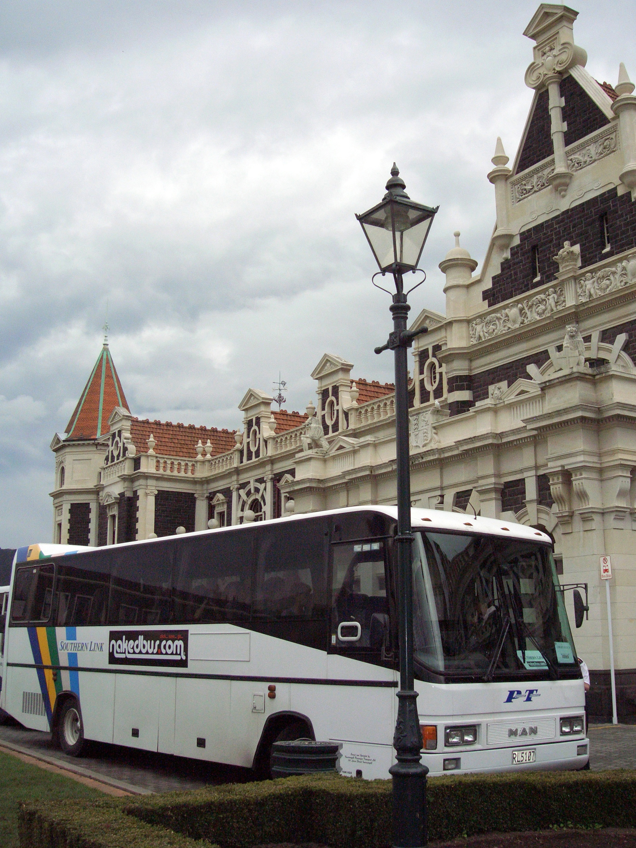 1992 MAN 10-180 Coach operated by Passenger Transport providing a joint Southern Link and service to Christchurch from Dunedin Railway Station forecourt.